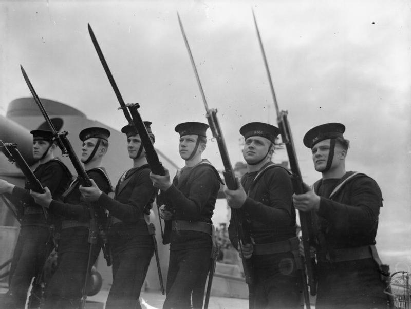 On Board the Battleship HMS Rodney. October 1940, Training on Board the Battleship. Six sailors, standing in the 'On Guard' position during rifle and bayonet drill on board HMS RODNEY. The ship is moored in the Firth of Forth.